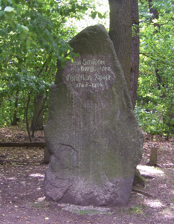 The Roese Monomument at Roesessches Hölzchen park.